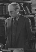 Salvador Arcella- actor